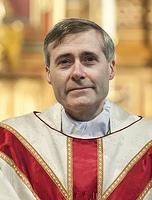 Bishop Mark Davies during Invocation 2011, 17-19 June, Oscott College